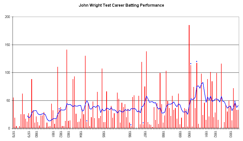 This graph details the Test Match performance of John Wright. It was created by Raven4x4x. The red bars indicate the player's test match innings, while the blue line shows the average of the ten most recent innings at that point. Note that this average cannot be calculated for the first nine innings. The blue dots indicate innings in which Wright finished not-out. This graph was generated with Microsoft Excel 2002, using data from Cricinfo [1] and Howstat [2].